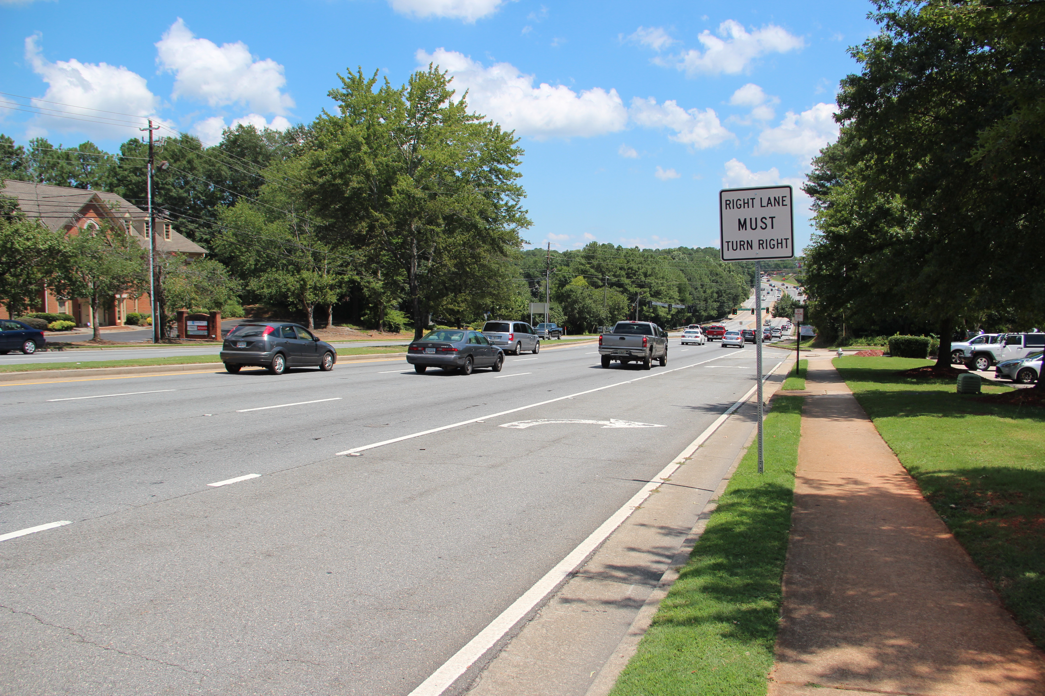 Holcomb Bridge Road, Roswell, GA